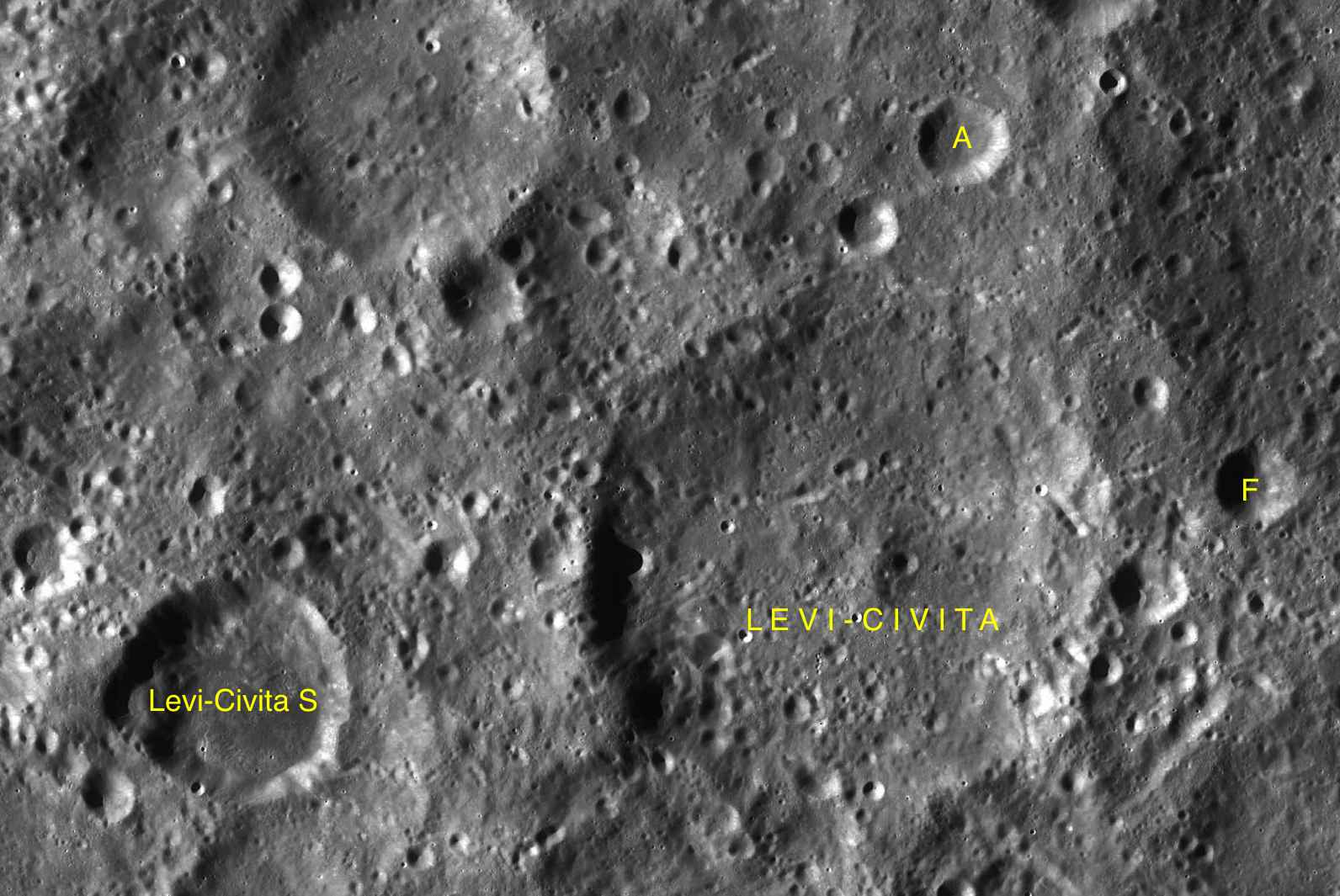 Part of the chart LAC-102 used for the presentation